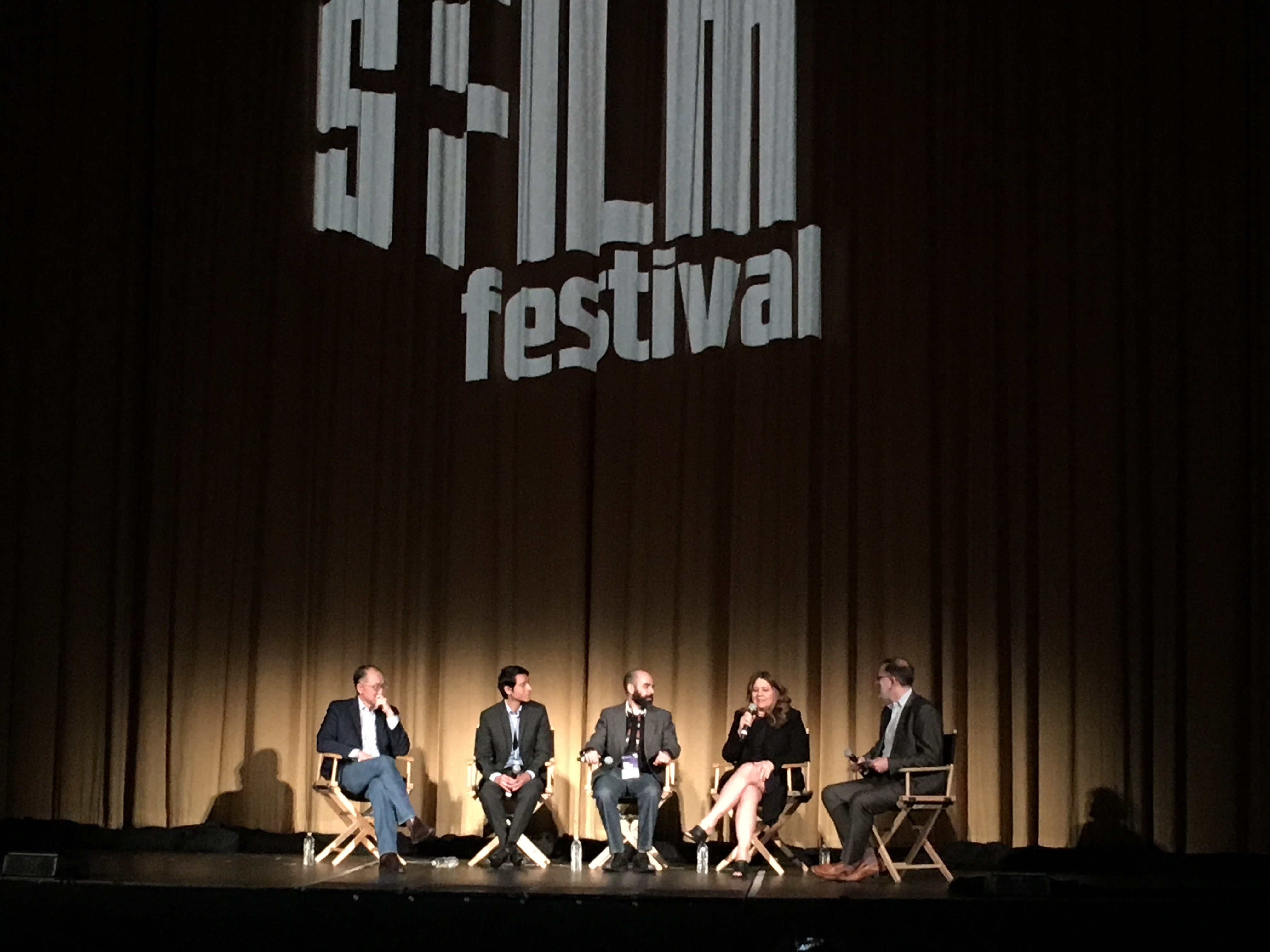 Dr. Jim Kim, a Peruvian TB patient, film Director, Pedro Kos, and Producer, Cori Shepherd Stern talk about their film, Bending the Arc at the SF Film Festival on April 14, 2017